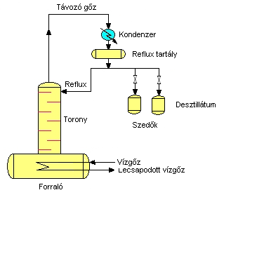 This image is the Hungarian version of Image:BatchRectifier.png created by MBychok and uploaded onto the Commons. I, LouisBB have translated its captions and substituted the English version of these with the translated version.